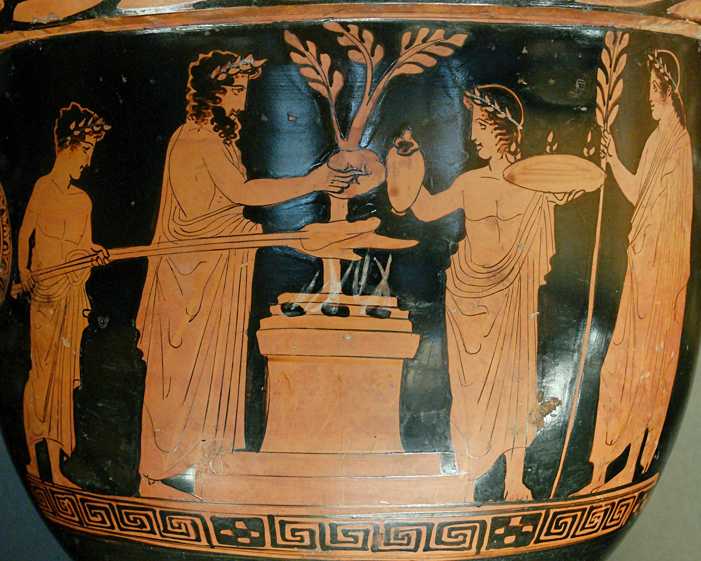 Sacrifice scene. Attic red-figure krater, ca. 430 BC–420 BC. Found in Athens.